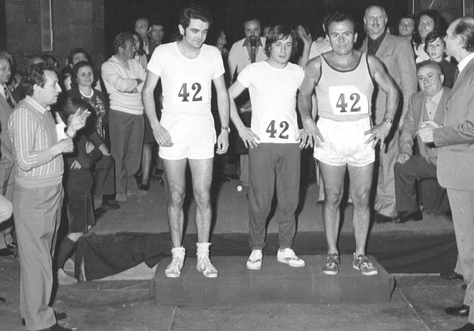 Runners at Monza-Resegone marathon start in 1972 or 1973.